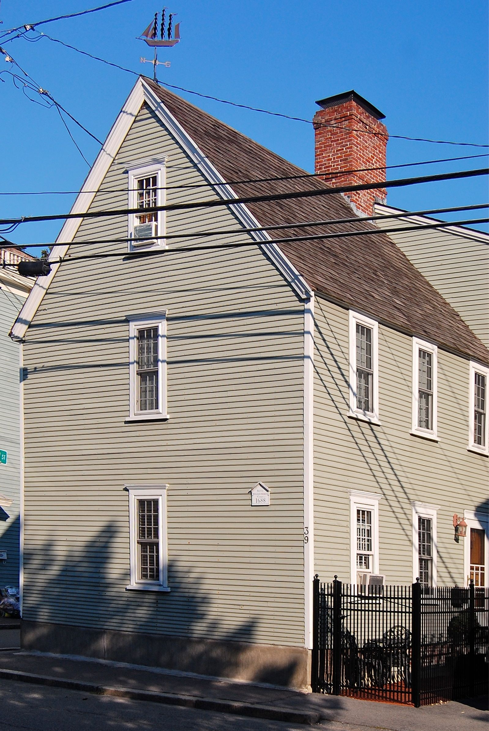 Half of the William Murray House in Salem, Massachusetts, est. 1688.